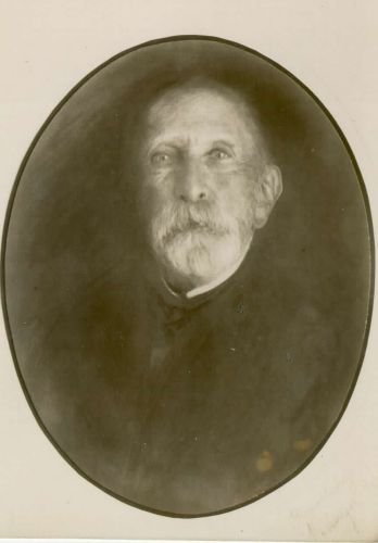 Alfred Moscon (1839-1927), Slovenian politician